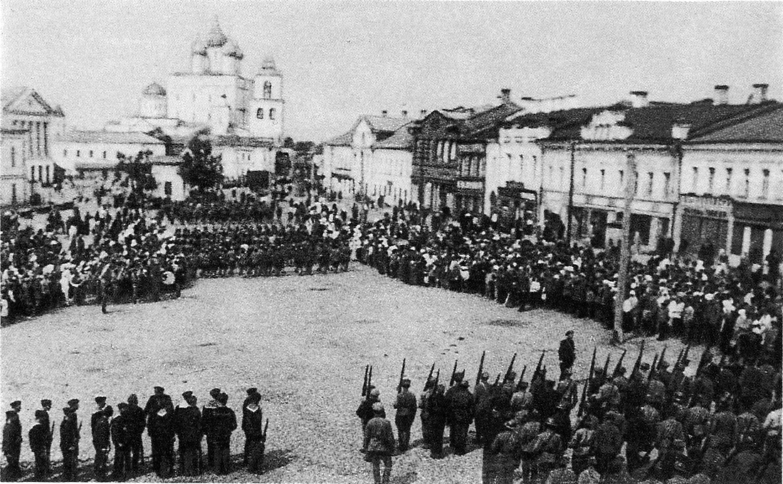 Estonian army parade in Pskov on 28 may 1919 after capturing the city during the Estonian War of Independence